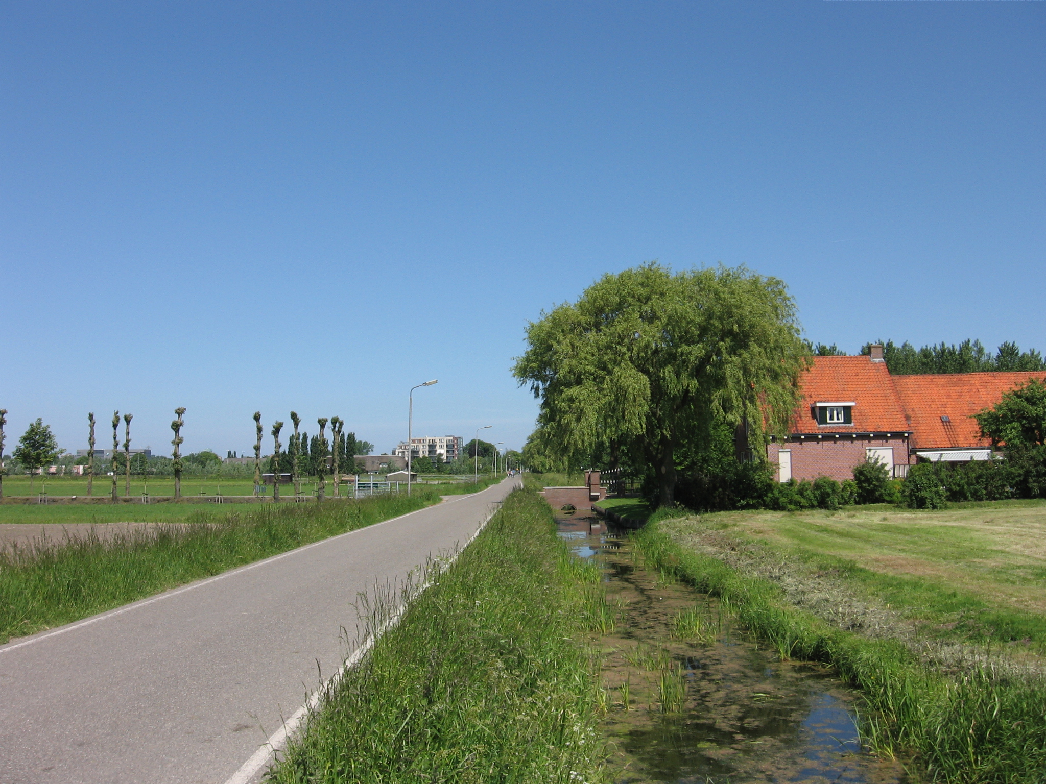 Abtswoude